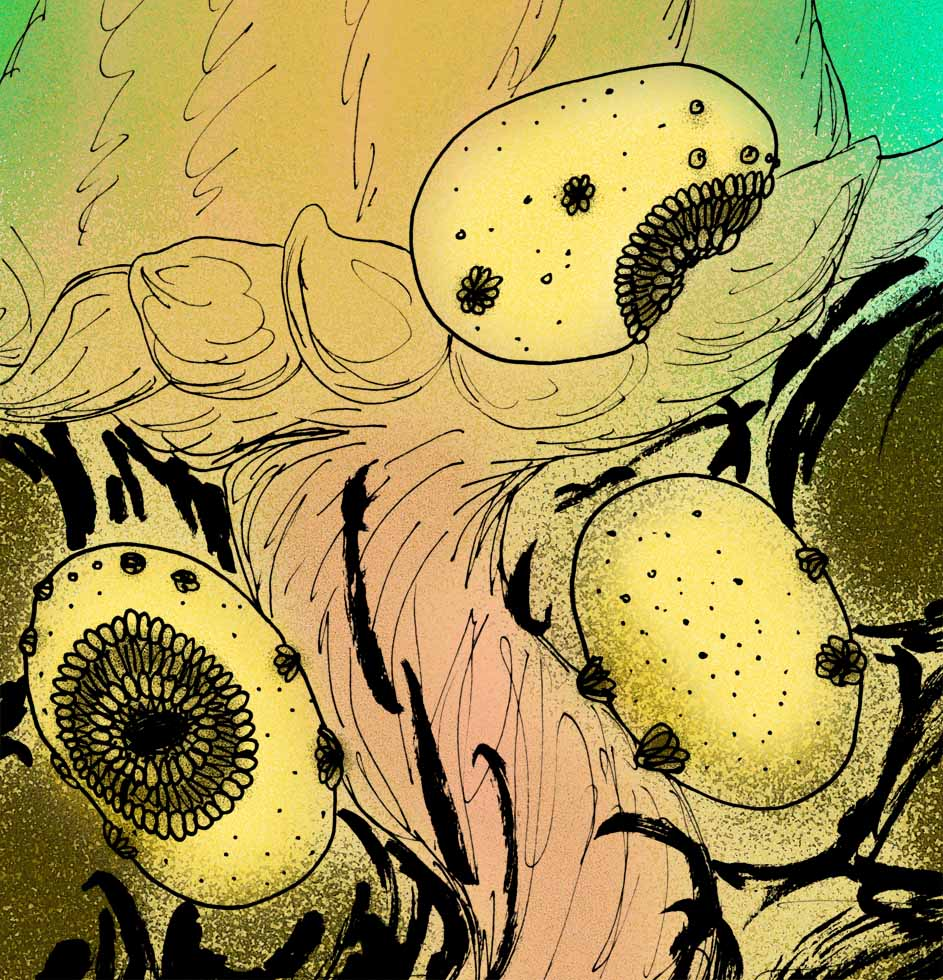 Reconstruction of the basal deuterostome Saccorhytus coronarius, from the Fortunian Epoch of Early Cambrian Shaanxi Province.